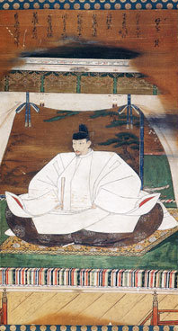 Portrait of Toyotomi Hideyoshi drawn in 1601. copyright expired due to age of image. This picture is kept in Koudaiji.